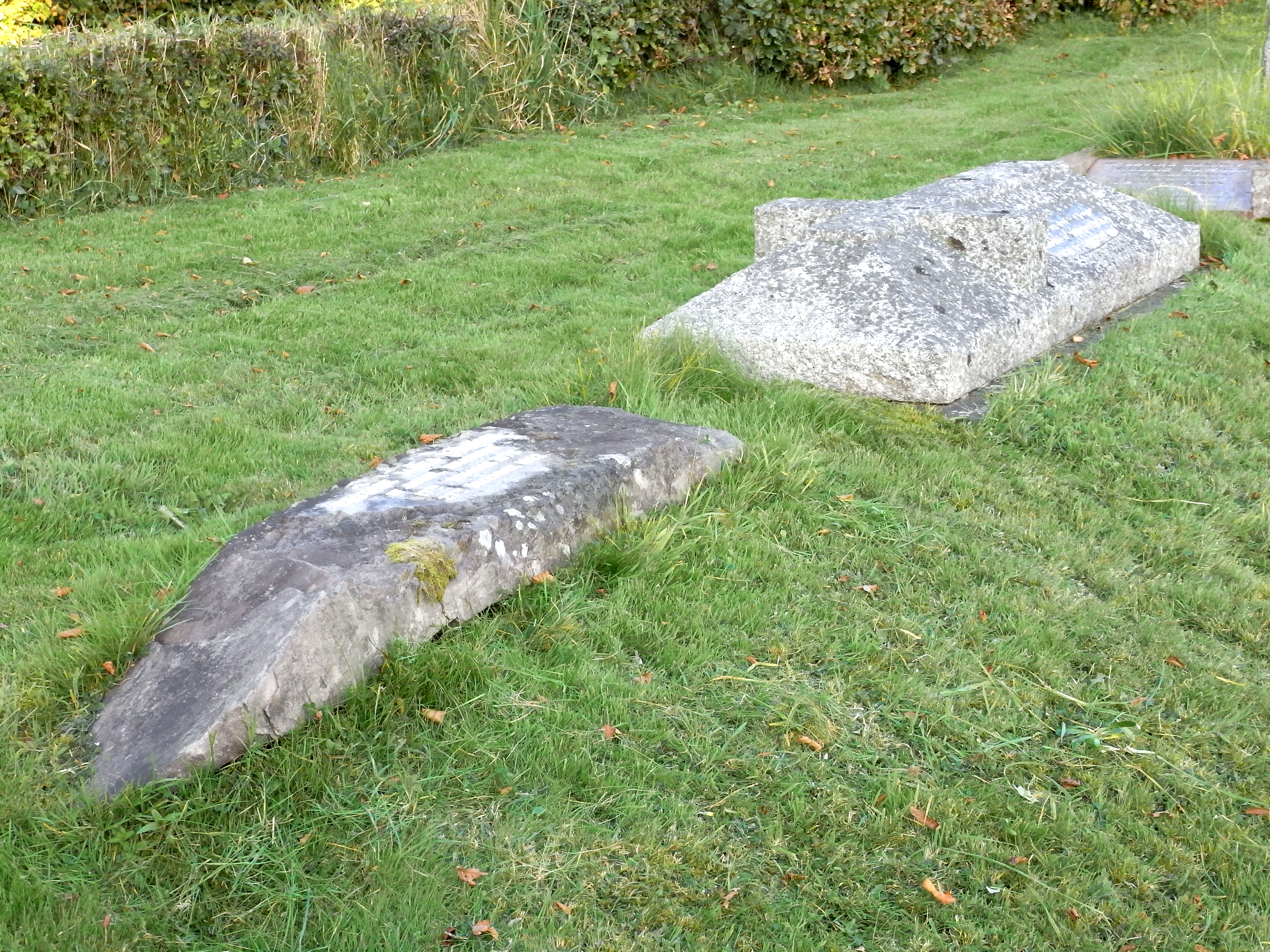 Gravestones in St Giles' parish churchyard, Hawkridge, Somerset, of Col. Eustace Harrison (1876–1962) (foreground), of Combe House, Dulverton, Lord of the Manor of Hawkridge, a keen follower of the Devon and Somerset Staghounds, buried in Hawkridge churchyard, north-east of the church, at the feet of the huntsman of the Devon and Somerset Staghounds Ernest Bawden (1878–1943), huntsman from 1917–37 and his tenant at one of his farms at Hawkridge (gravestone in background). Inscriptions: "Col. Eustace James Harrison of Combe, Dulverton, 17th October 1876 – 27th December 1962"; "Ernest Comer Bawden March 3 1878 – September 10 1943 Huntsman D&SSH 1917–1937"